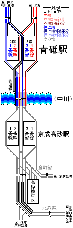 The wiring rail-setting in four lines section of the Keisei line and the Keisei Oshiage line was made.